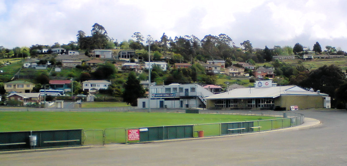 Launceston FC changrooms at Windsor Park